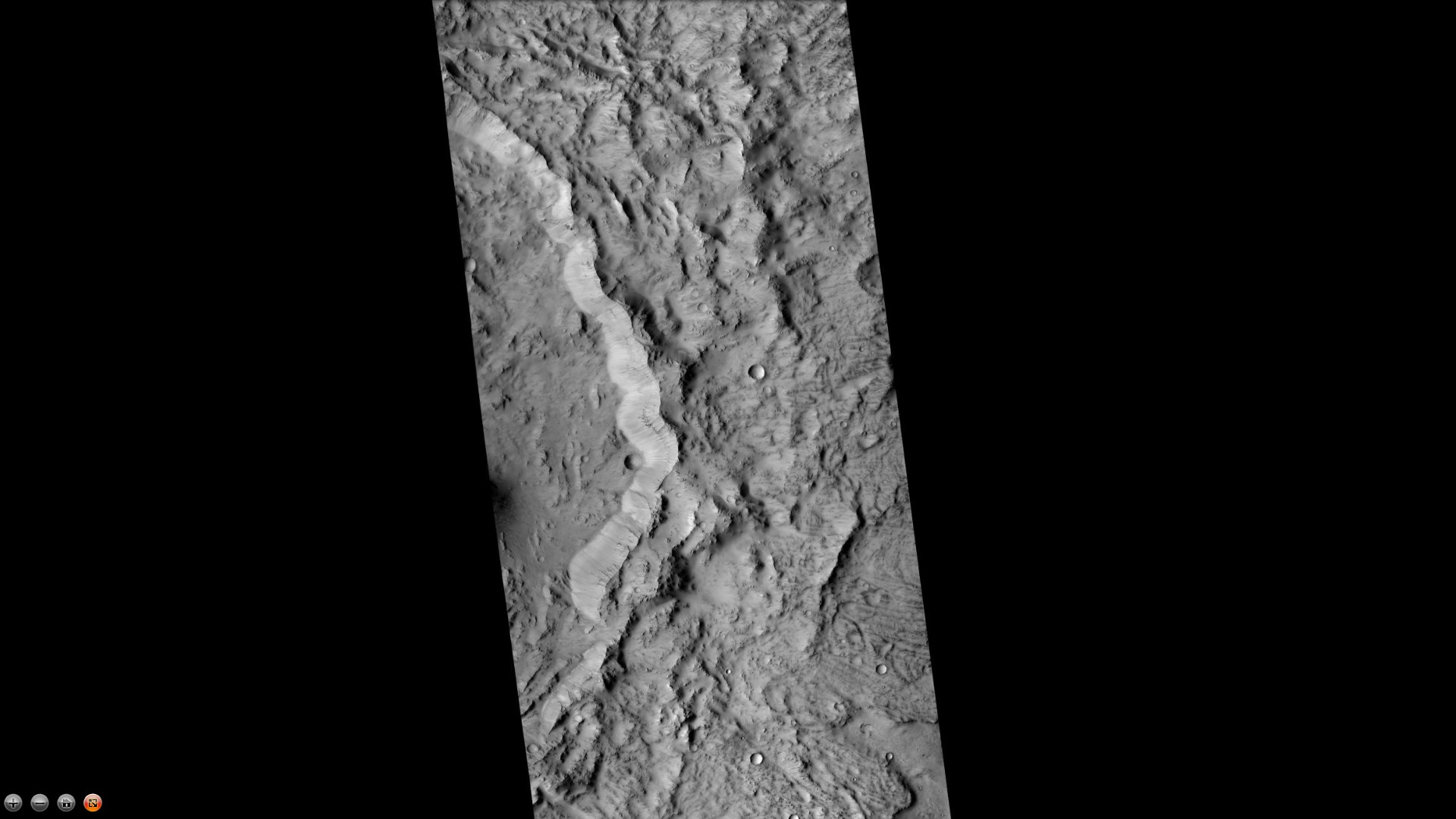 East side of Ejriksson Crater, as seen by ctx